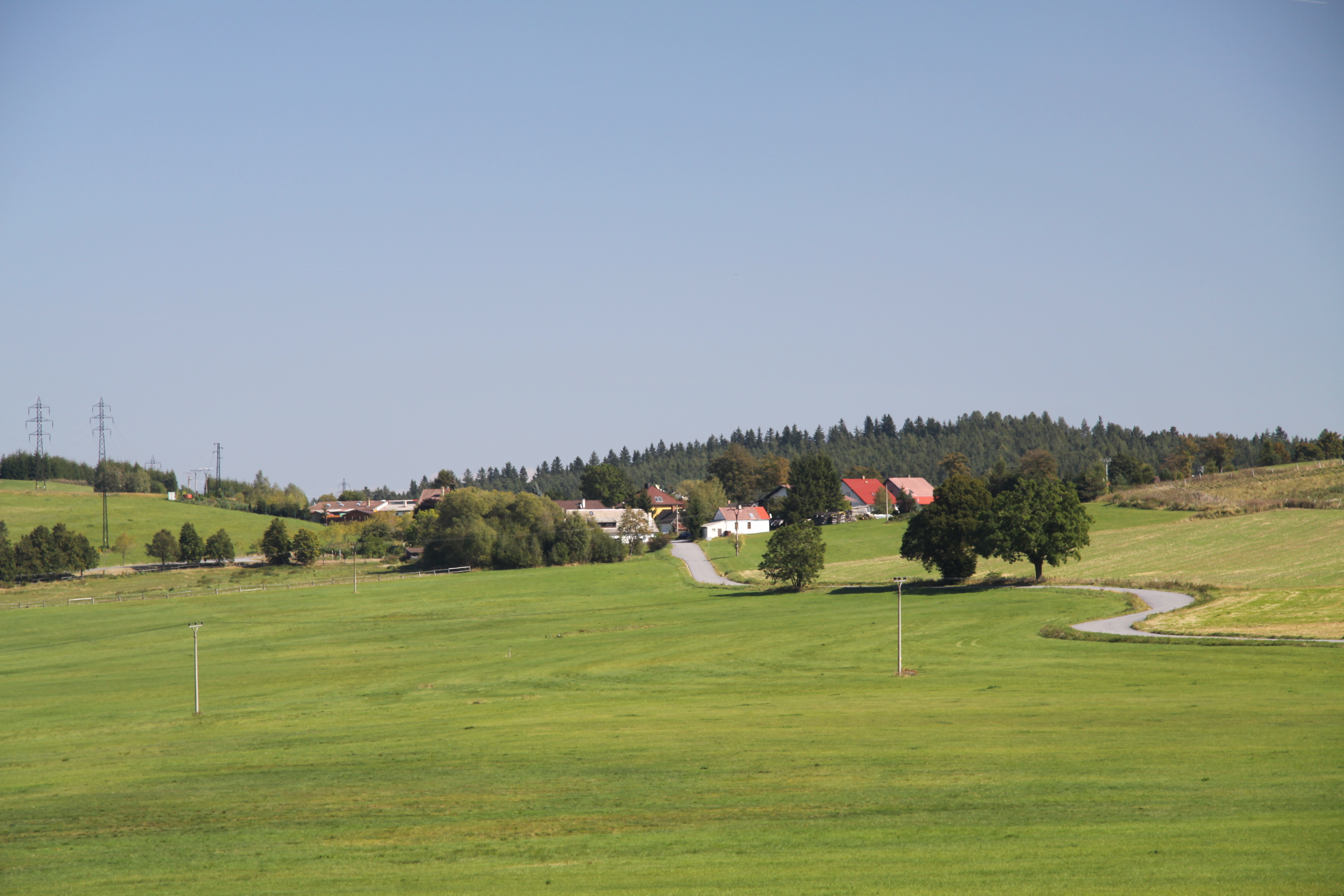 Šumavské Hoštice village in Prachatice District, Czech Republic